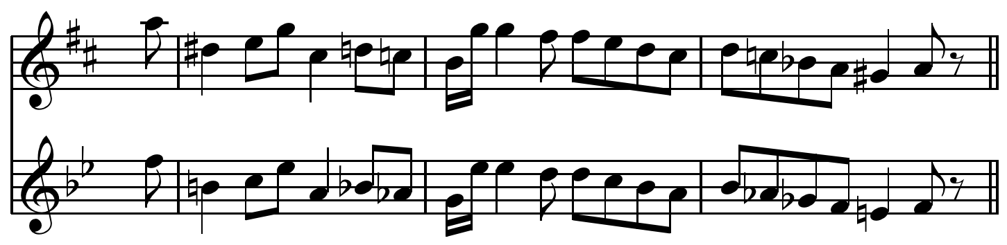 Transposition example from Koch. The melody on the first line is in the key of D, while the melody on the second line is identical except that it is major third lower, in the key of B. Created by Hyacinth (talk) 18:56, 6 October 2010 using Sibelius 5.